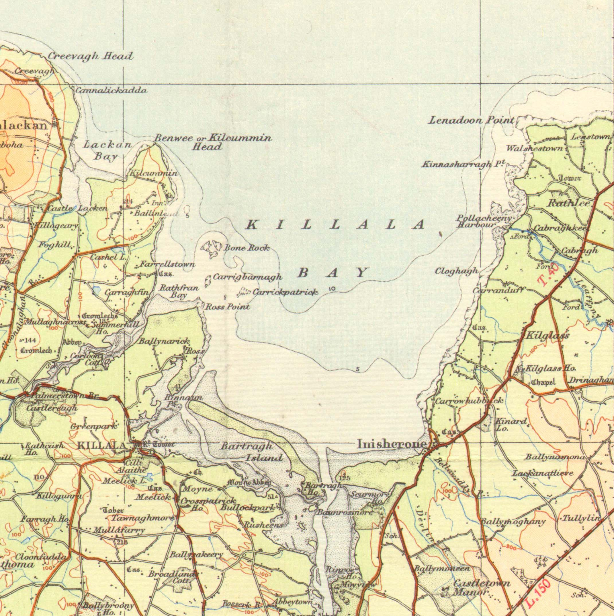 OS map of North Mayo, at a scale of 1:126,730 or one half inch to one mile